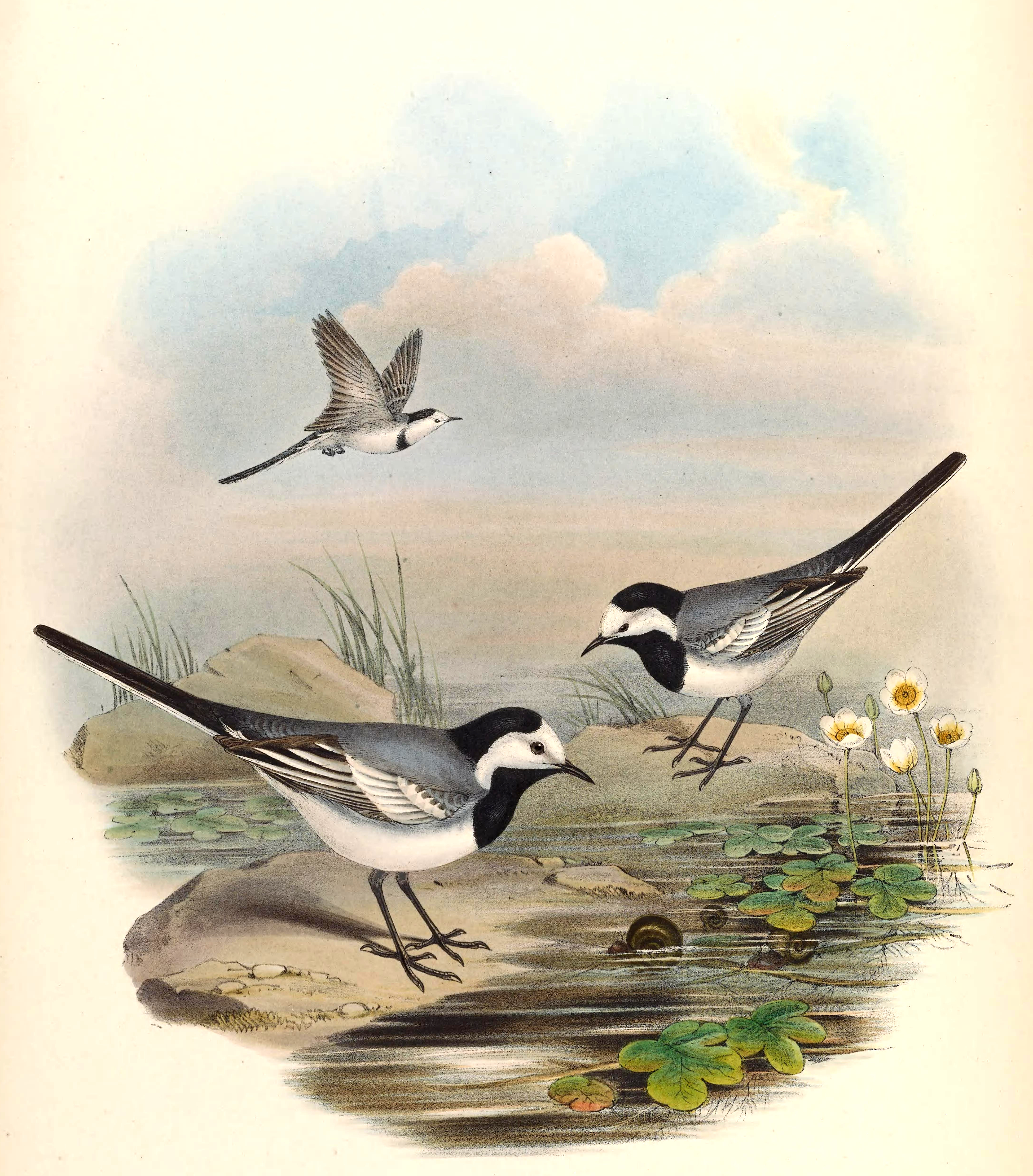 White Wagtail (Pied Wagtail) Motacilla alba Linnaeus